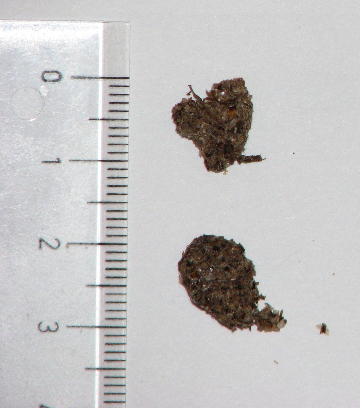 These two balls (each consisting of app. 4 crickets) are a couple of leftovers after two feedings of an adult tarantula. Tarantulas who only consume food turned into liquid by their digestive juices leave these balls of crushed hard pieces of their preys' body or hard parts thereof after the feeding. In a terrarium, they often put them into the same corner. The ruler shows centimetres.